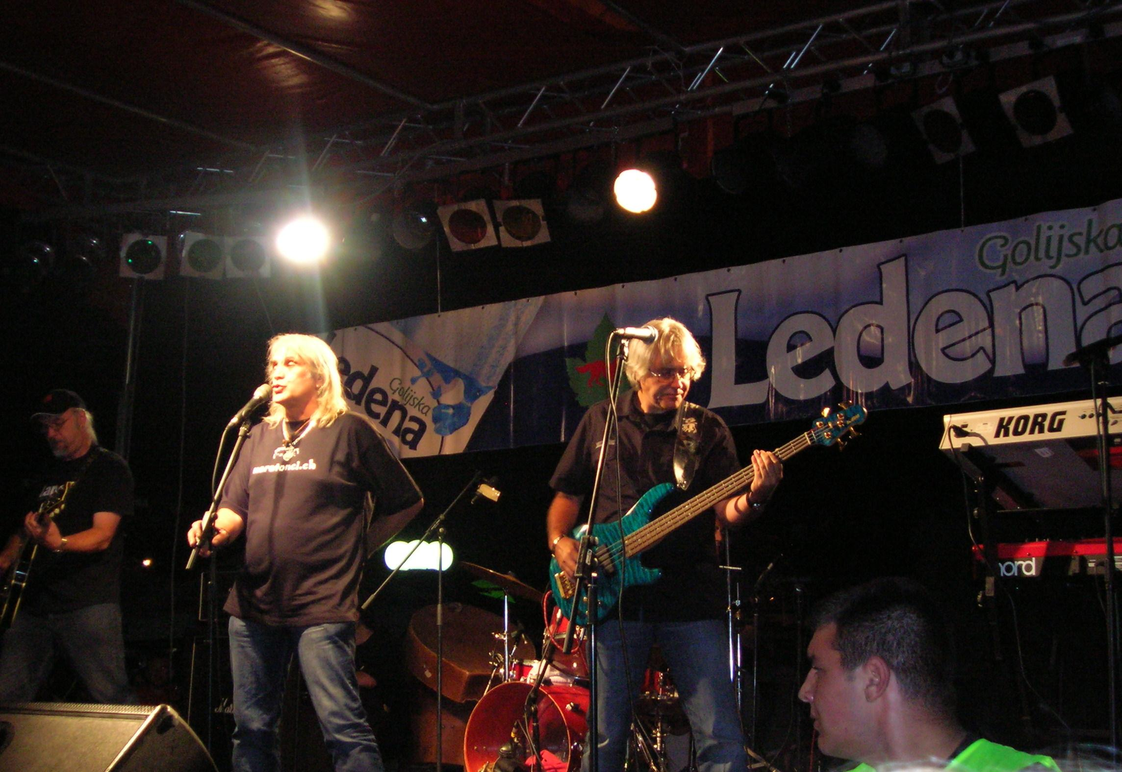 Riblja Corba performing live in 2008